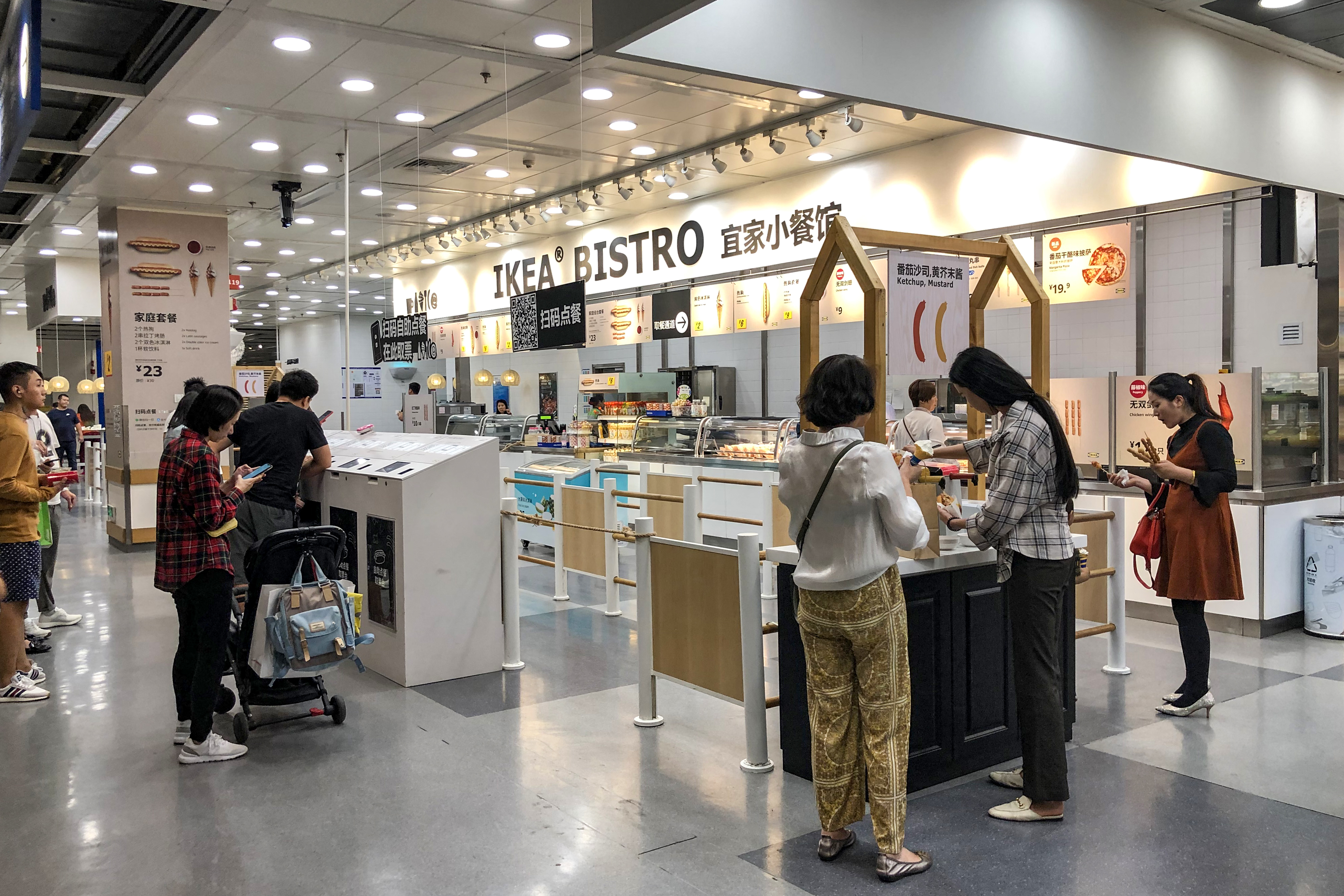 Hotdogs after shopping...